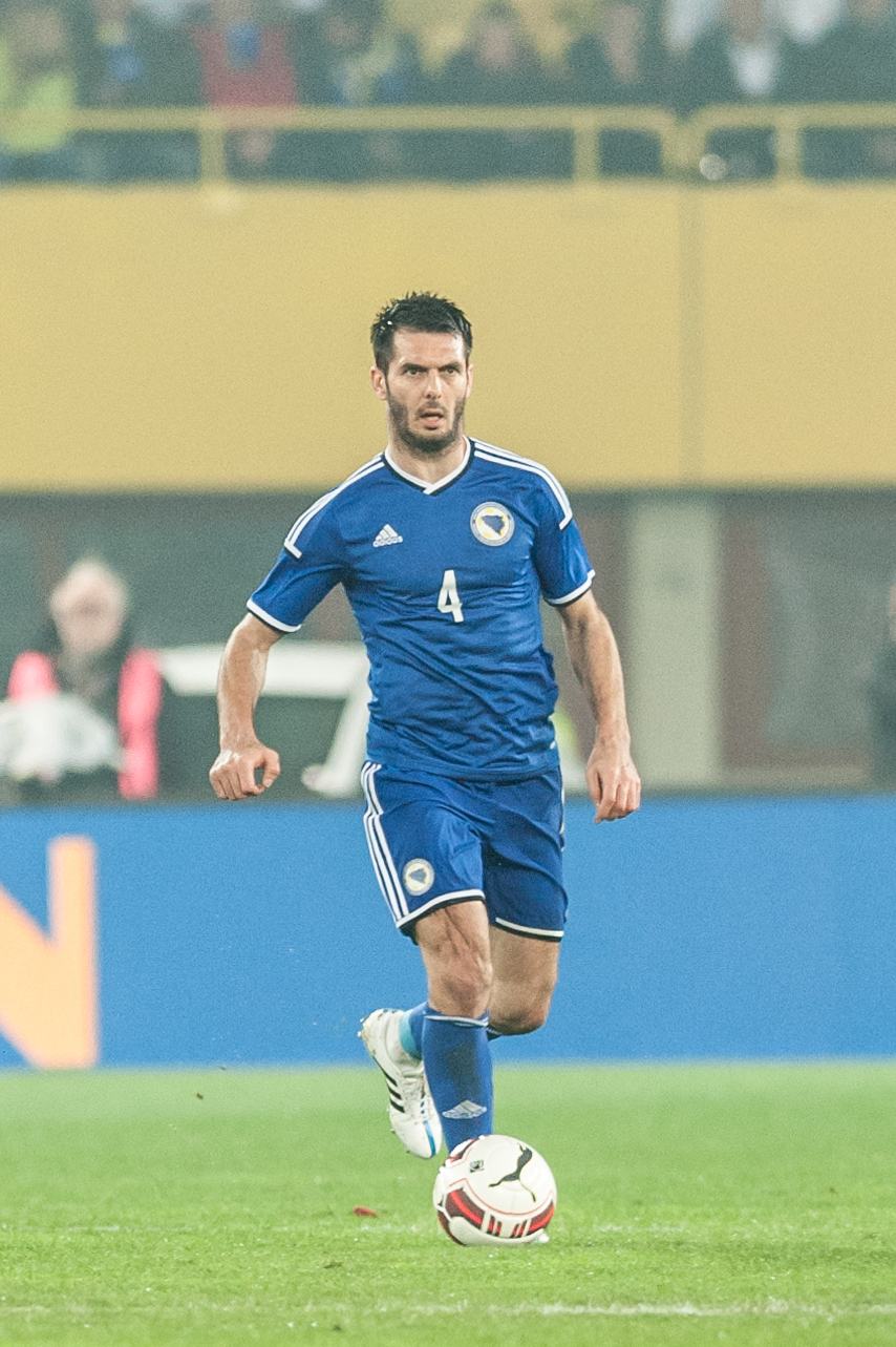 International friendly Austria vs. Bosnia and Herzegovina, 2015-03-31, Vienna